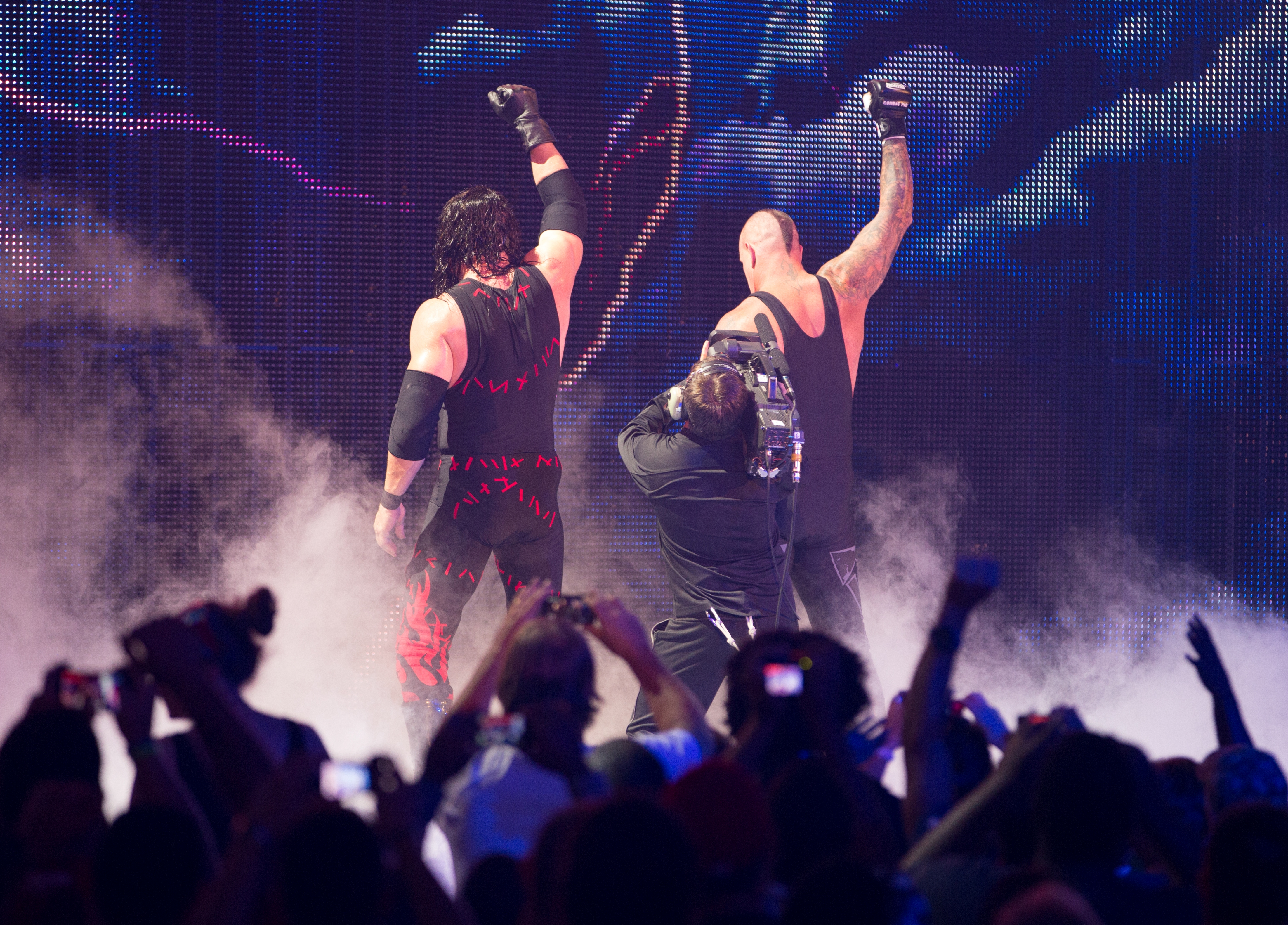 The Brothers of Destruction (Kane and the Undertaker) take their leave after fending off six attackers during Raw 1000.